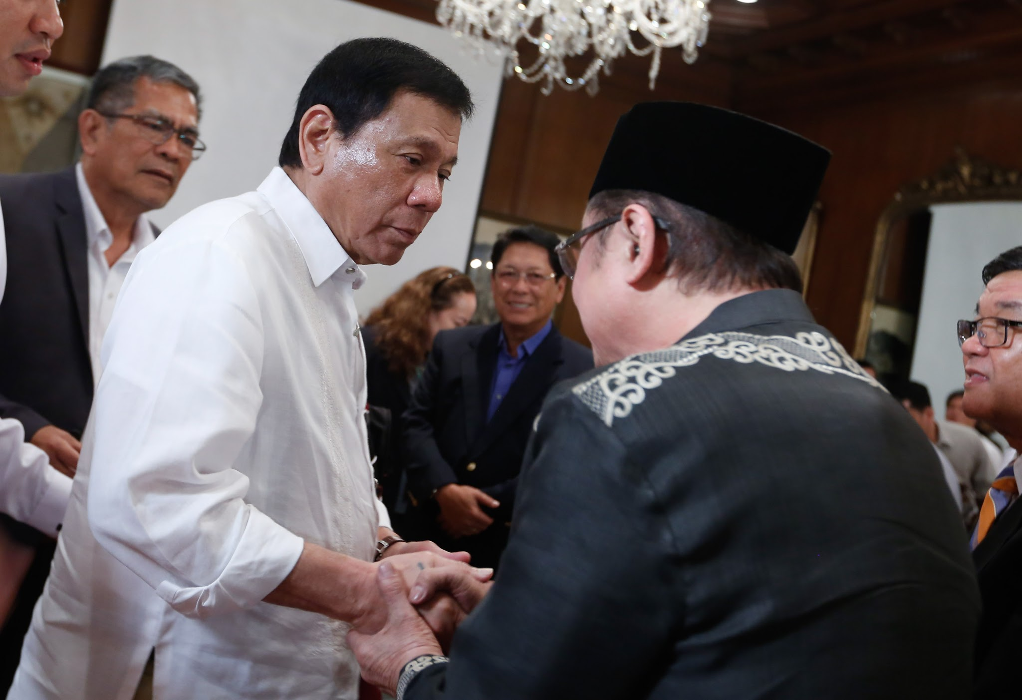 President Rodrigo Duterte is greeted by Mindanao Development Authority Chairperson Abul Khayr Alonto at the 6th Cabinet Meeting in Malacañan’s State Dining Room on September 14.